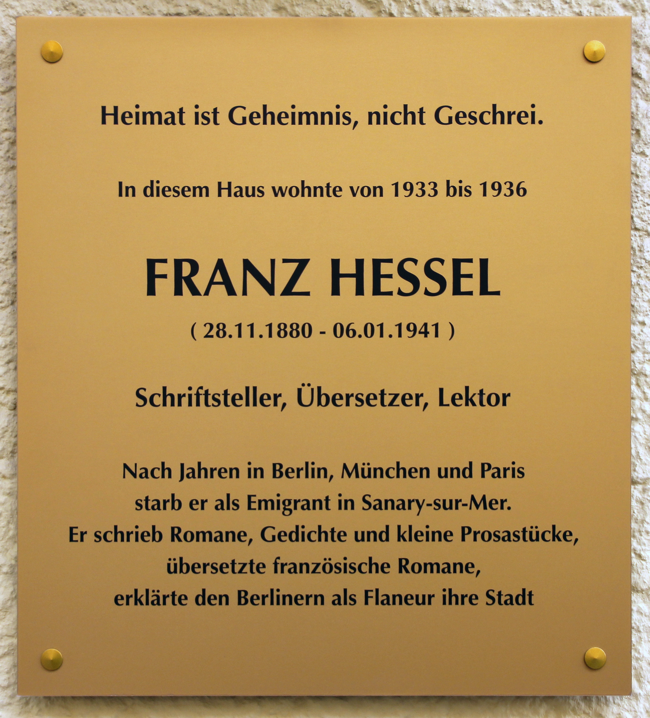 Memorial plaque, Franz Hessel, Lindauer Straße 8, Berlin-Schöneberg, Germany